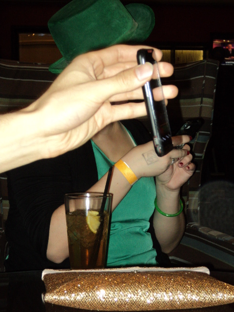 An inadvertent photobomb at the kickoff party for the Second Annual Treefort Music Fest in Boise, Idaho.